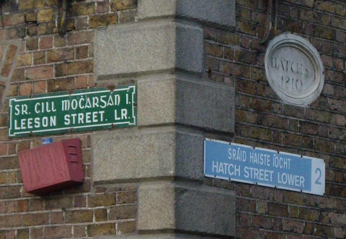 Corner of Hatch Street and Leeson Street in Dublin. Three streetnames (and a red burglar alarm) are visible: Upper right stone oval (original Georgian): HATCH ST 1810 Lower right blue plate (newest): SRÁID HAISTE ÍOCHT / HATCH STREET LOWER / 2 (name in Irish, Roman type / name in English / postal district) Left green plate (older): SR. CILL MOĊARGÁN Í. / LEESON STREET. LR. (name in Irish, Gaelic type / name in English / no postal district, sign predates the publicising of these in the 1970s